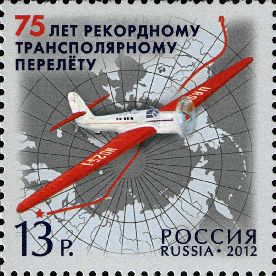 75th anniversary of the record transpolar flight.Tupolev ANT-25-1, the aircraft used for the flight, against the route of the record flight from Moscow to San Jacinto made over 12–14 July 1937 by the crew of Mikhail Gromov.The stamp of Russia, 13.00 rubles, 6 July 2012, PTC Marka Catalogue No 1607, Michel No 1839. Coated paper. Offset printing, multicoloured. Perforation: comb 11½:11½. Size of the stamp: 37×37 mm. Print run: 360,000.